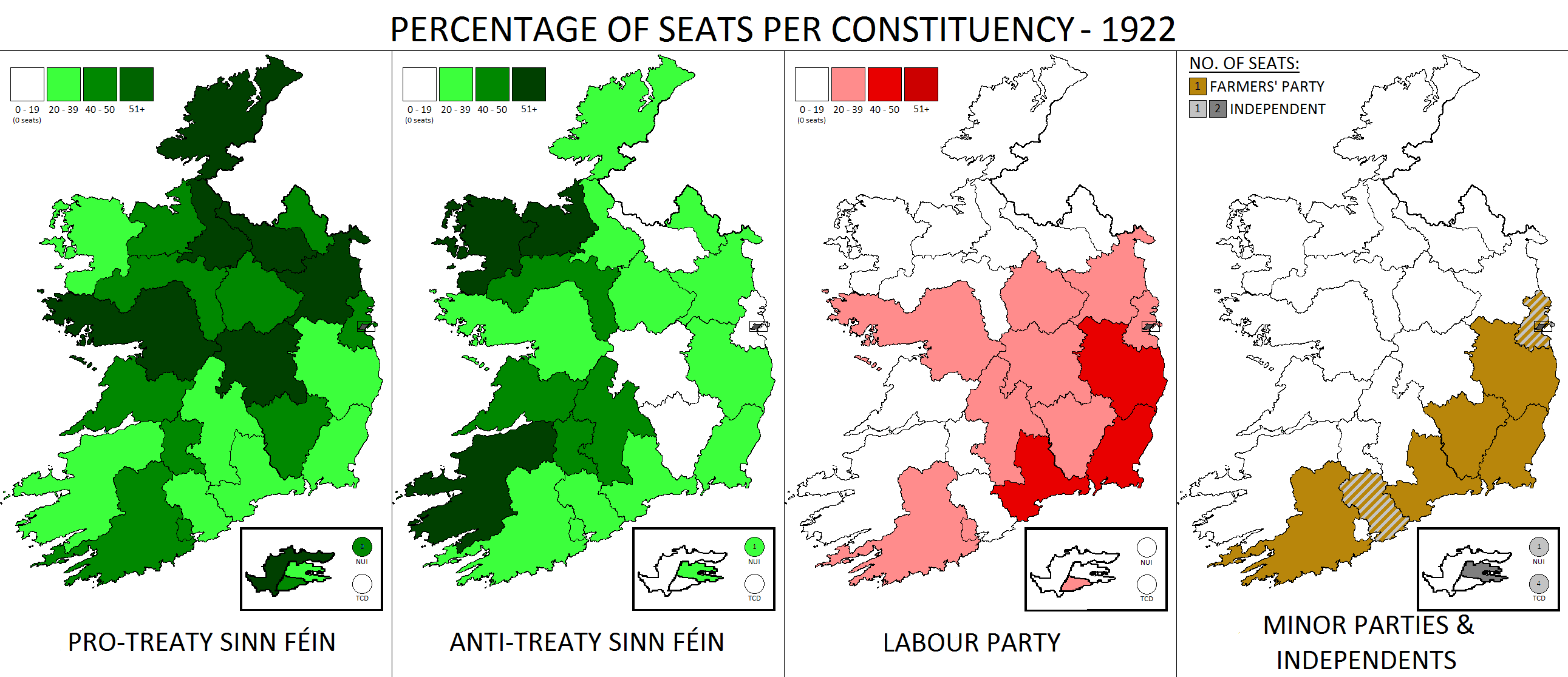 Graphical representation of the 1992 Irish general election results. Created by myself using data from Wikipedia and literary sources.